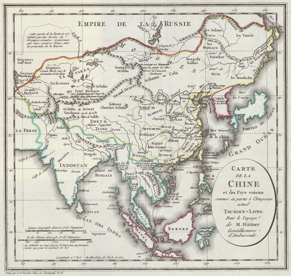 Map of China, from: Johann Christian Hüttner: Voyage dans l'intérieur de la Chine et en Tartarie fait dans les années 1792, 1793 et 1794 par lord Macartney., Paris, J. J. Fuchs, „an 7“ (1798–1799)